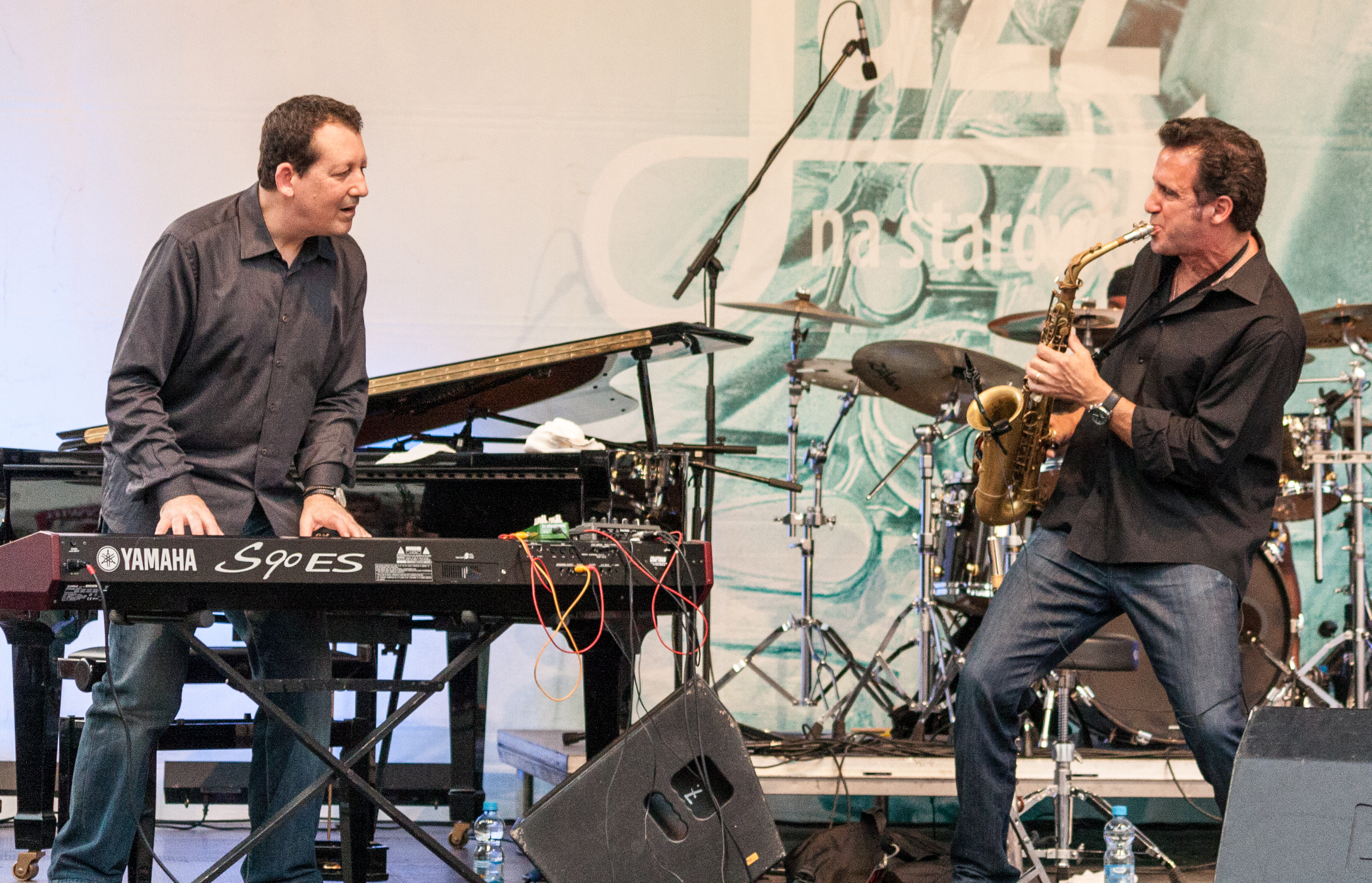 Jeff Lorber feat. Eric Marienthal - Jazz na Starówce festival 2012-08-04, Warsaw, Poland